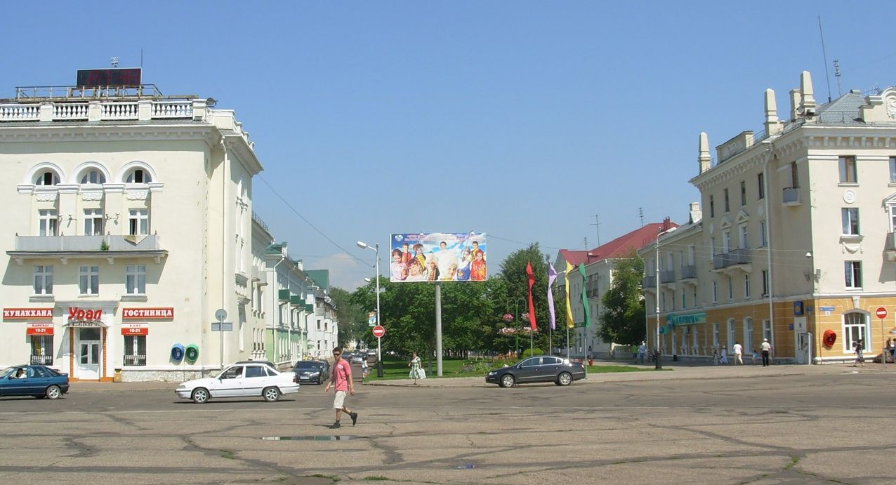 street